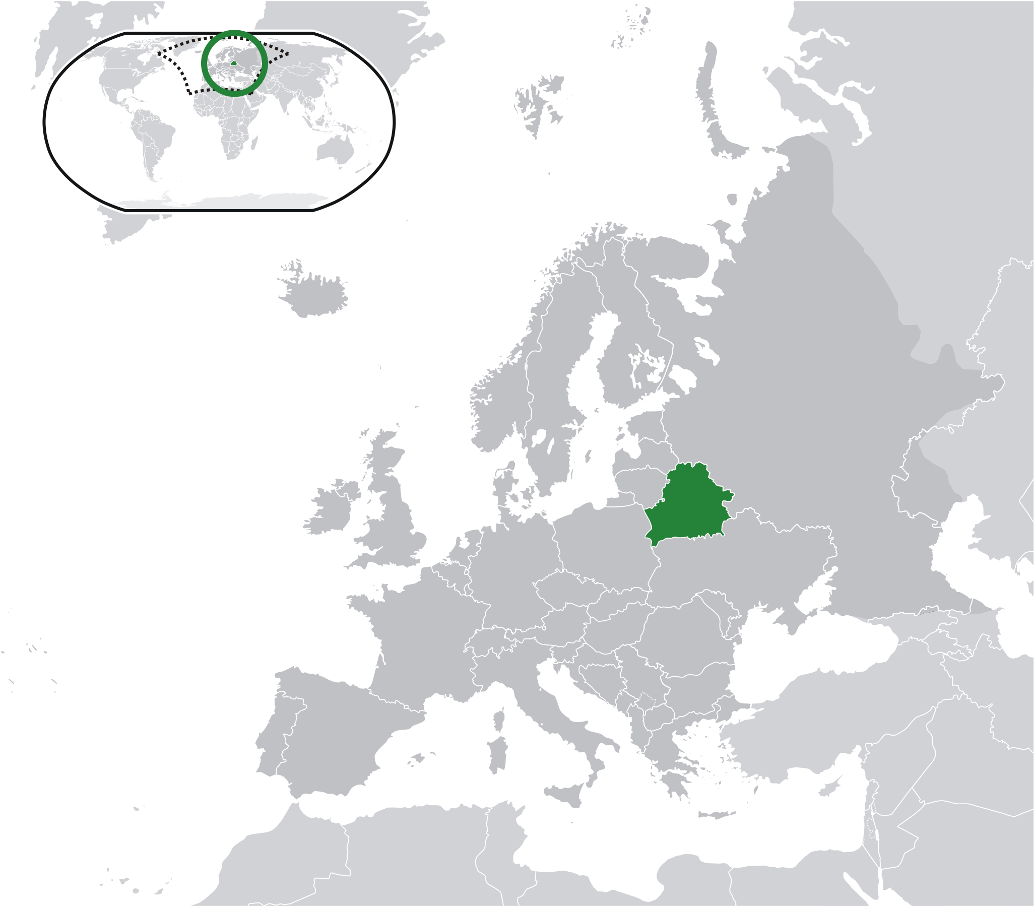 Belarus (dark green) / Europe (dark grey); inspired by and consistent with general country locator maps by User:Vardion, et al